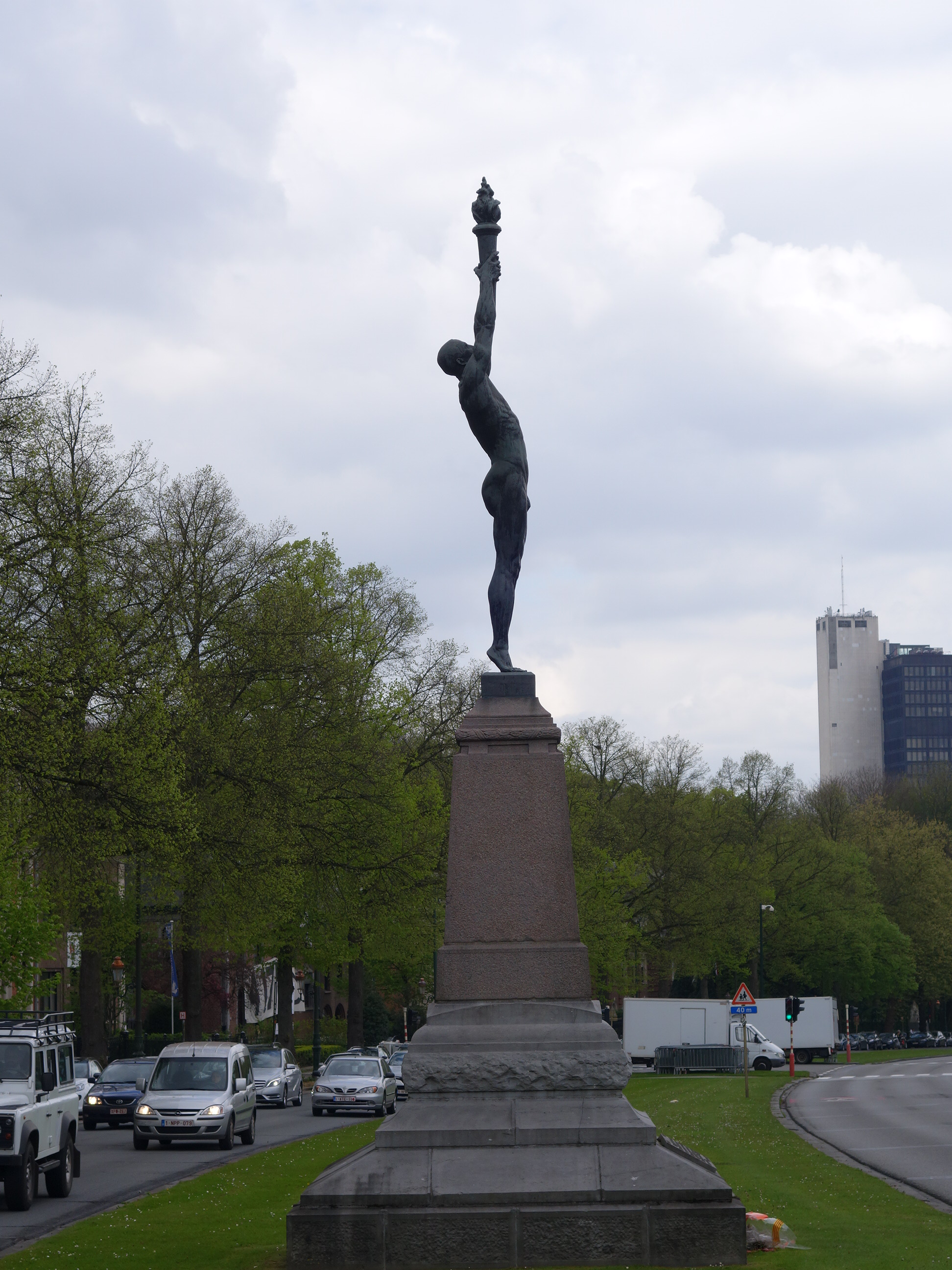 Monument to Francisco Ferrer, Brussels